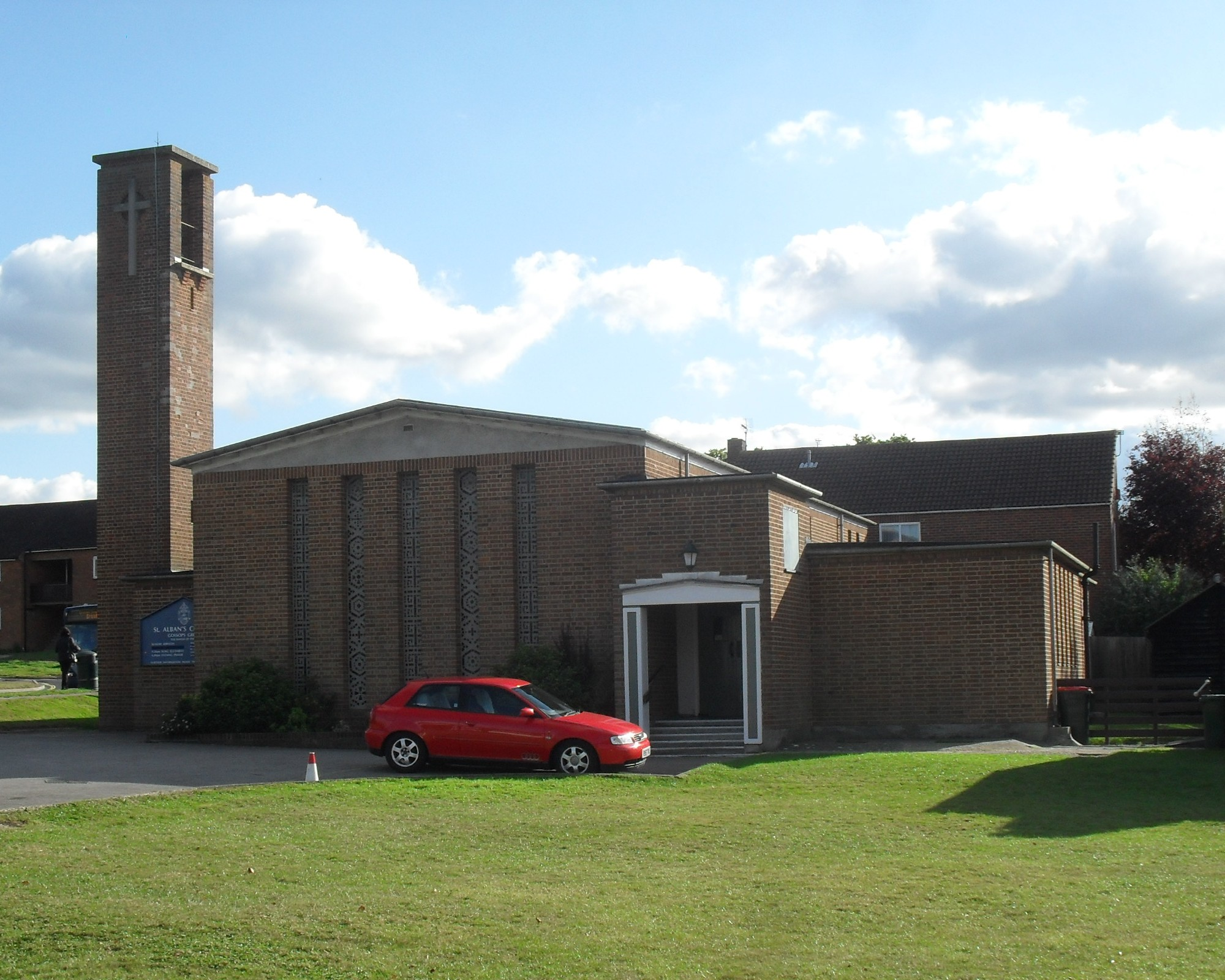 St Alban's parish church, Gossops Drive, Gossops Green, Crawley, West Sussex, England, Built in 1962